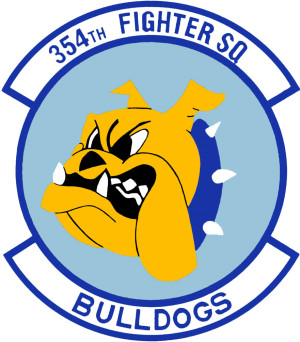 354th Fighter Squadron Patch